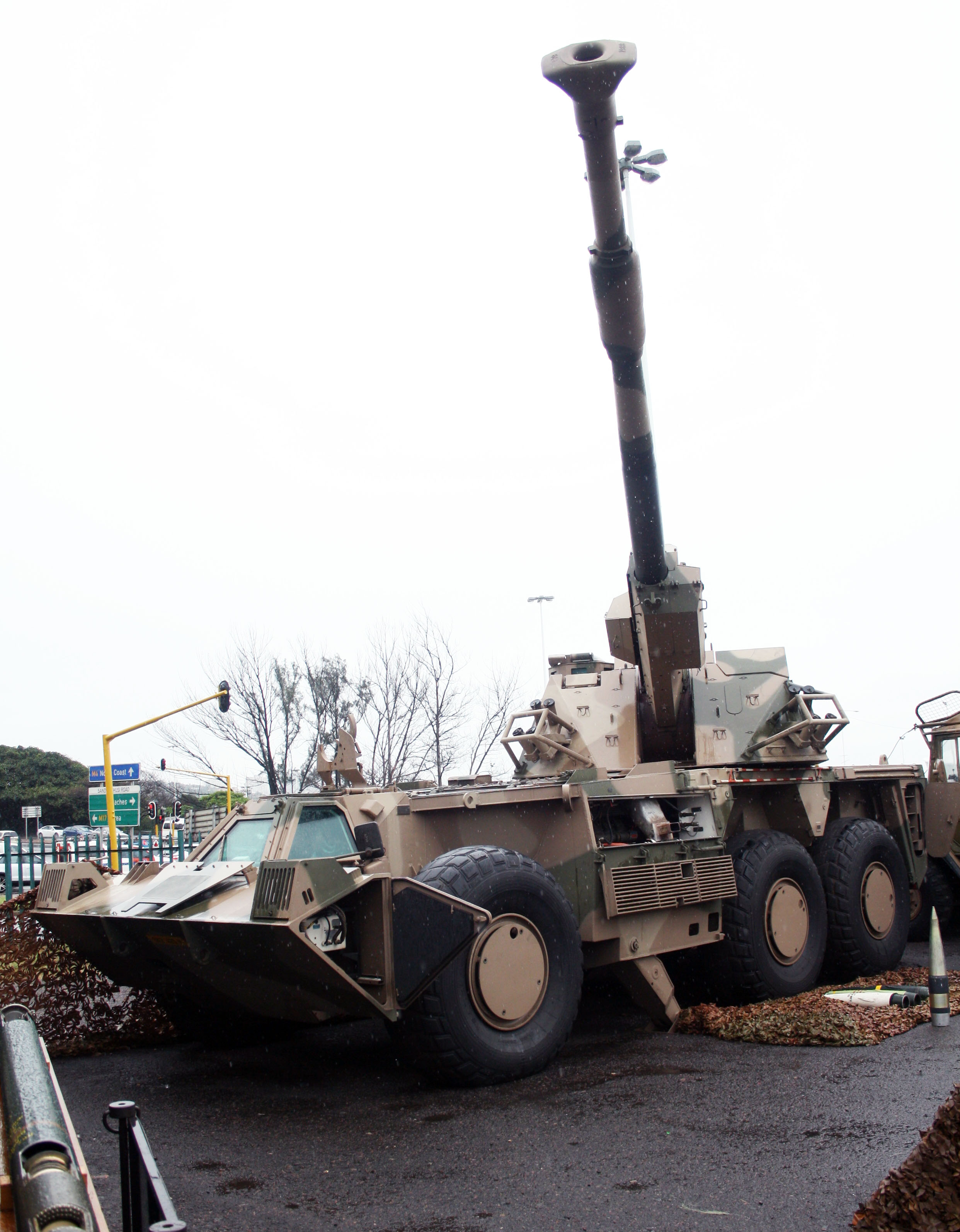 South African Army G6 155mm howitzer 2